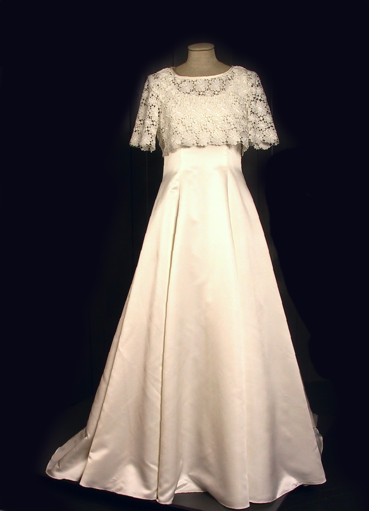 Wedding dress from 20.century.